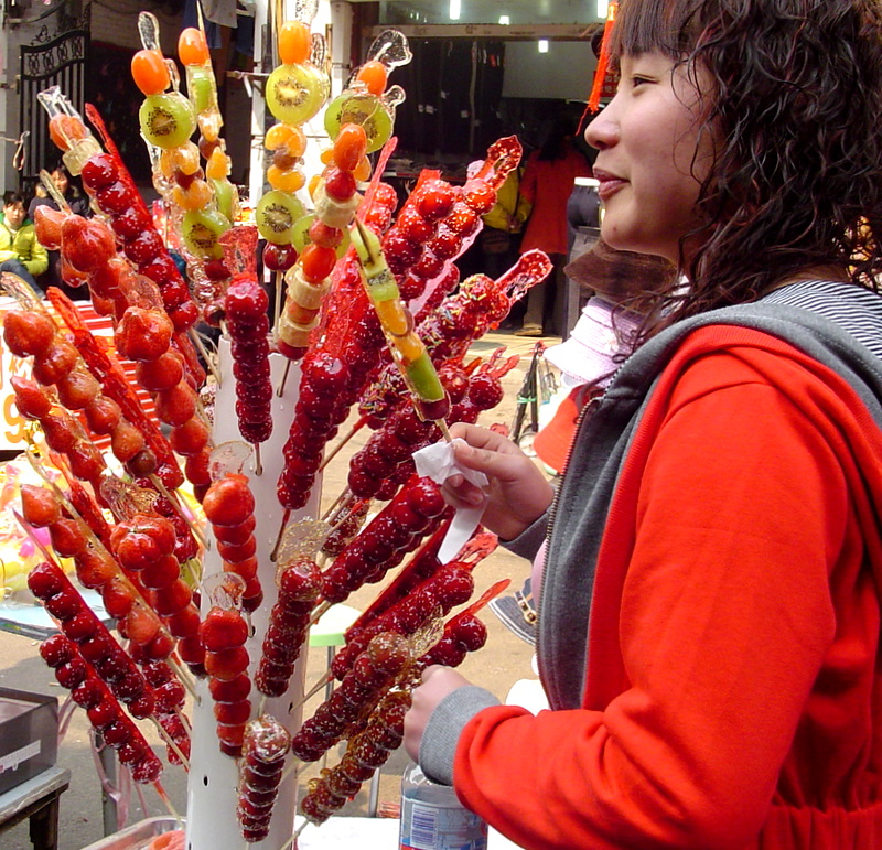 A variety of bing tanghulu, for sale on the street. Photo taken during the Lantern Festival near the Yuyuan Garden in Shanghai, China, with a Sony DSC-P52 digital camera.